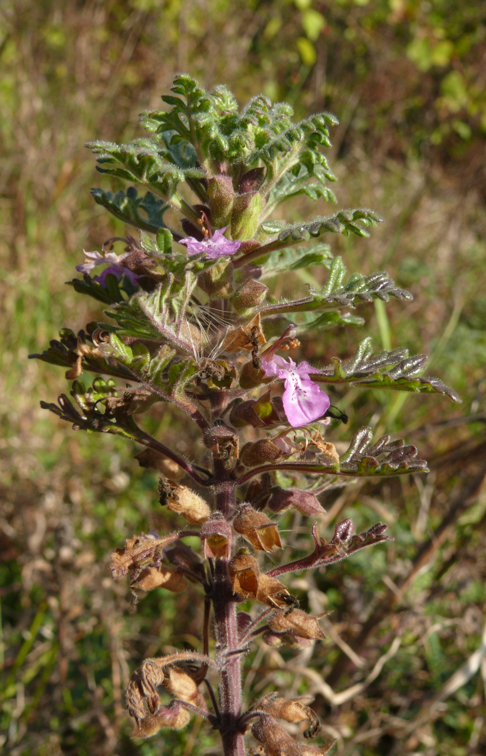 Teucrium botrys, Tauberland, Germany